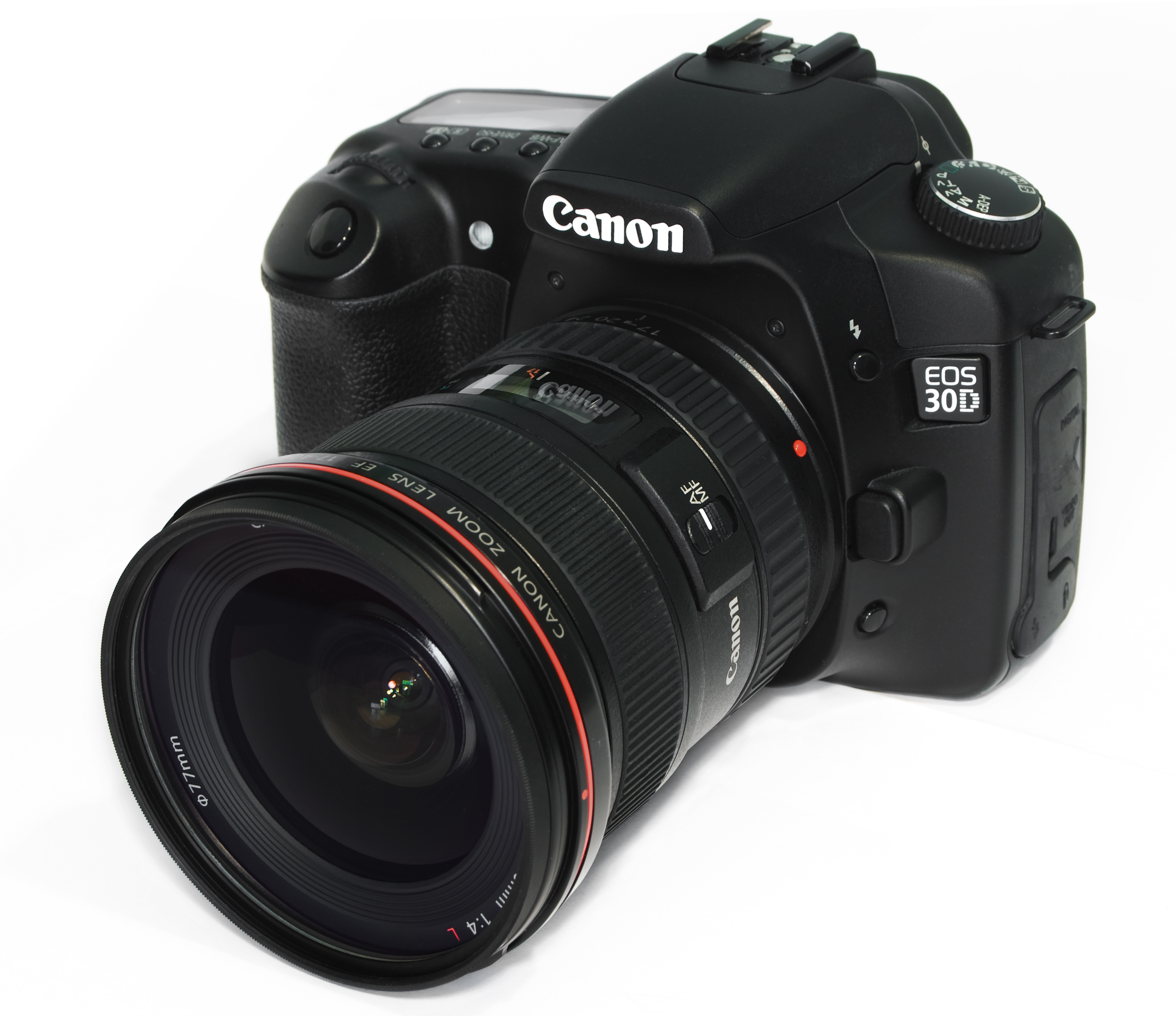 Image of a Canon EOS 30D, with 17-40mm L series Lens attached.